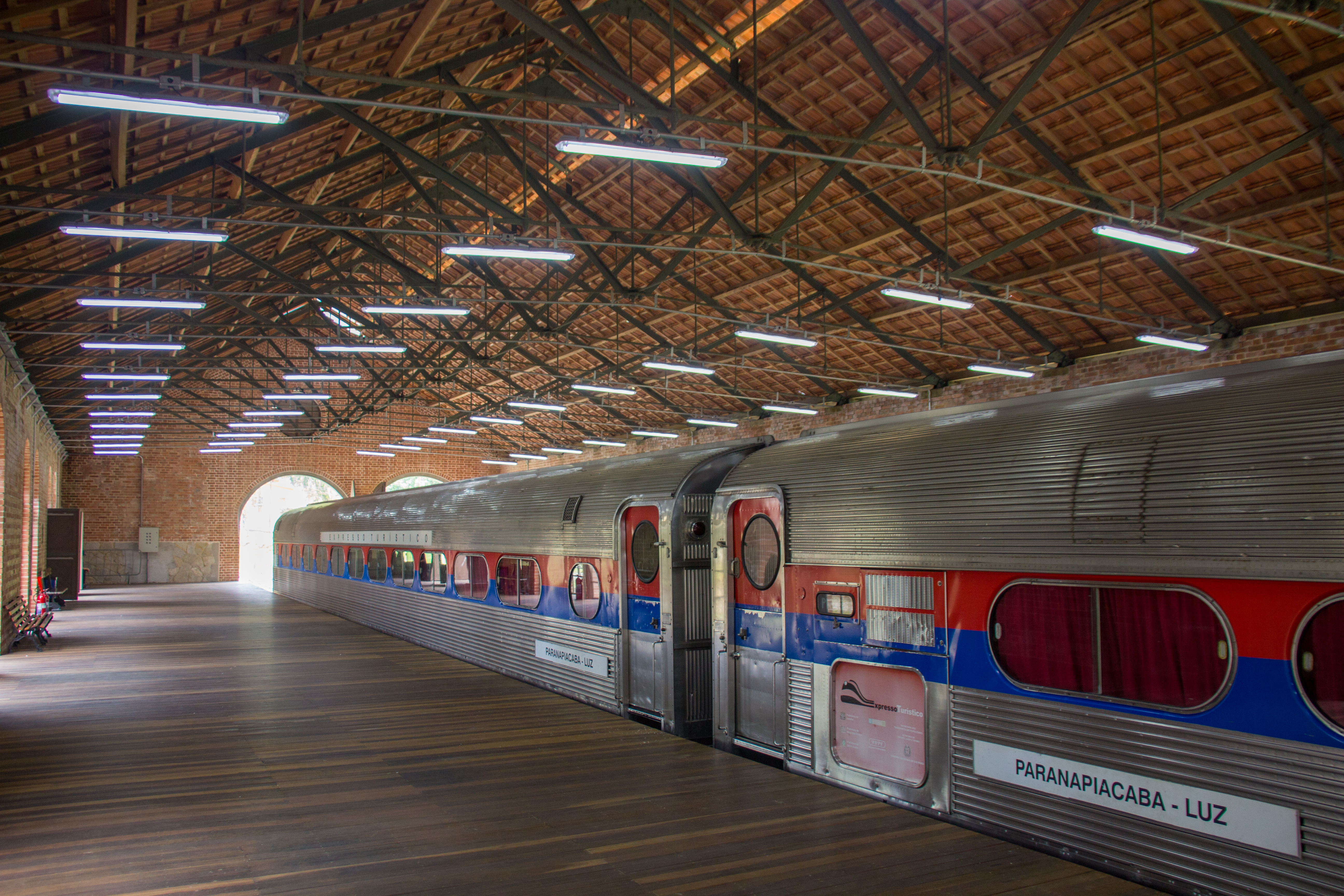 At Paranapiacaba, Brazil